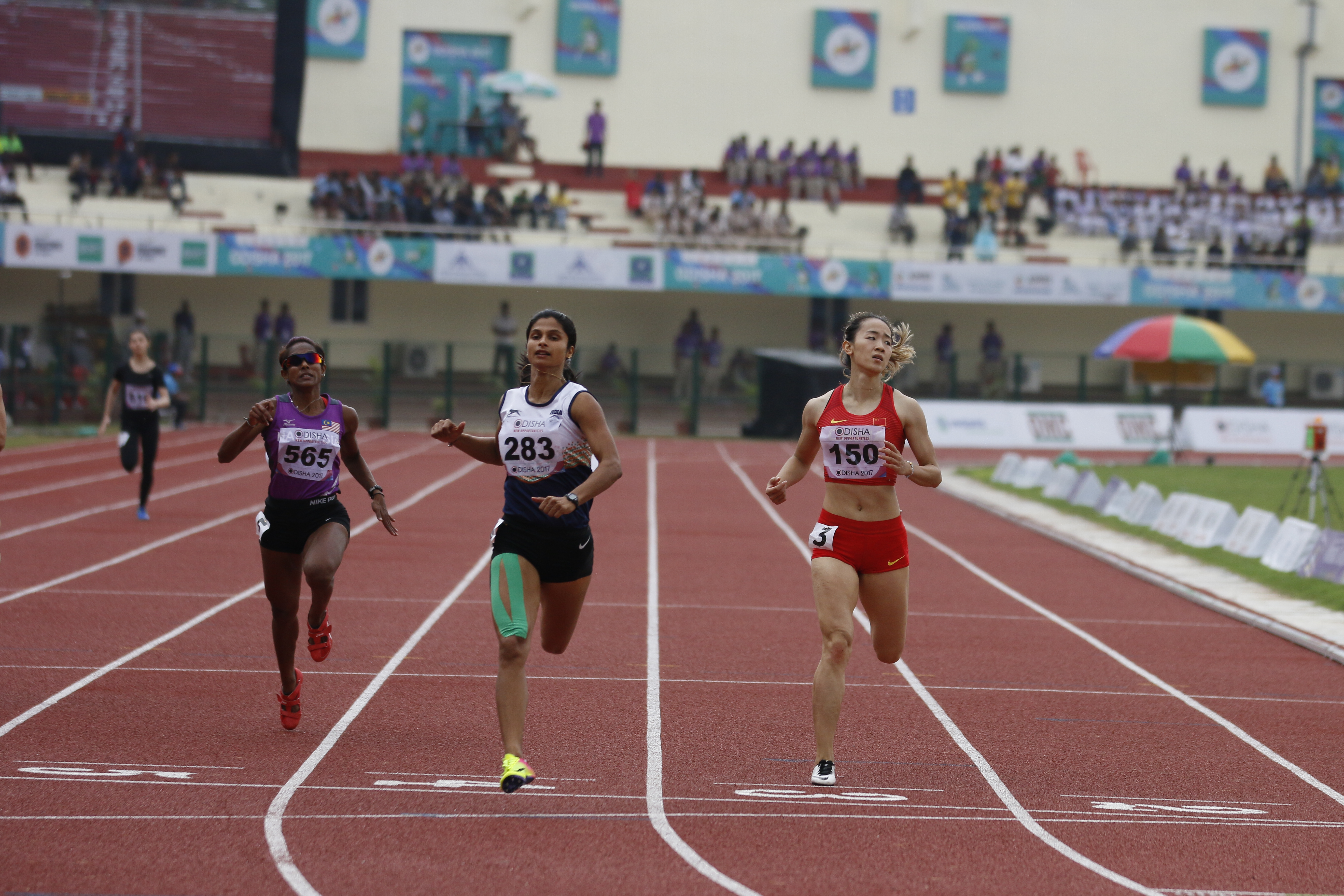 Srabani Nanda beating other athletes during 22nd Asian Athletics Championships in Bhubaneswar.